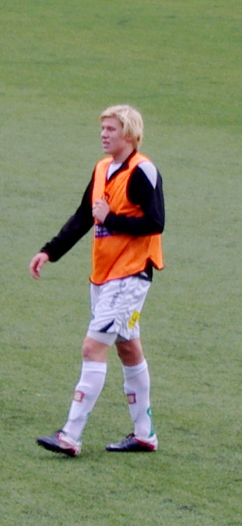 Norwegian footballer Jakob Glesnes